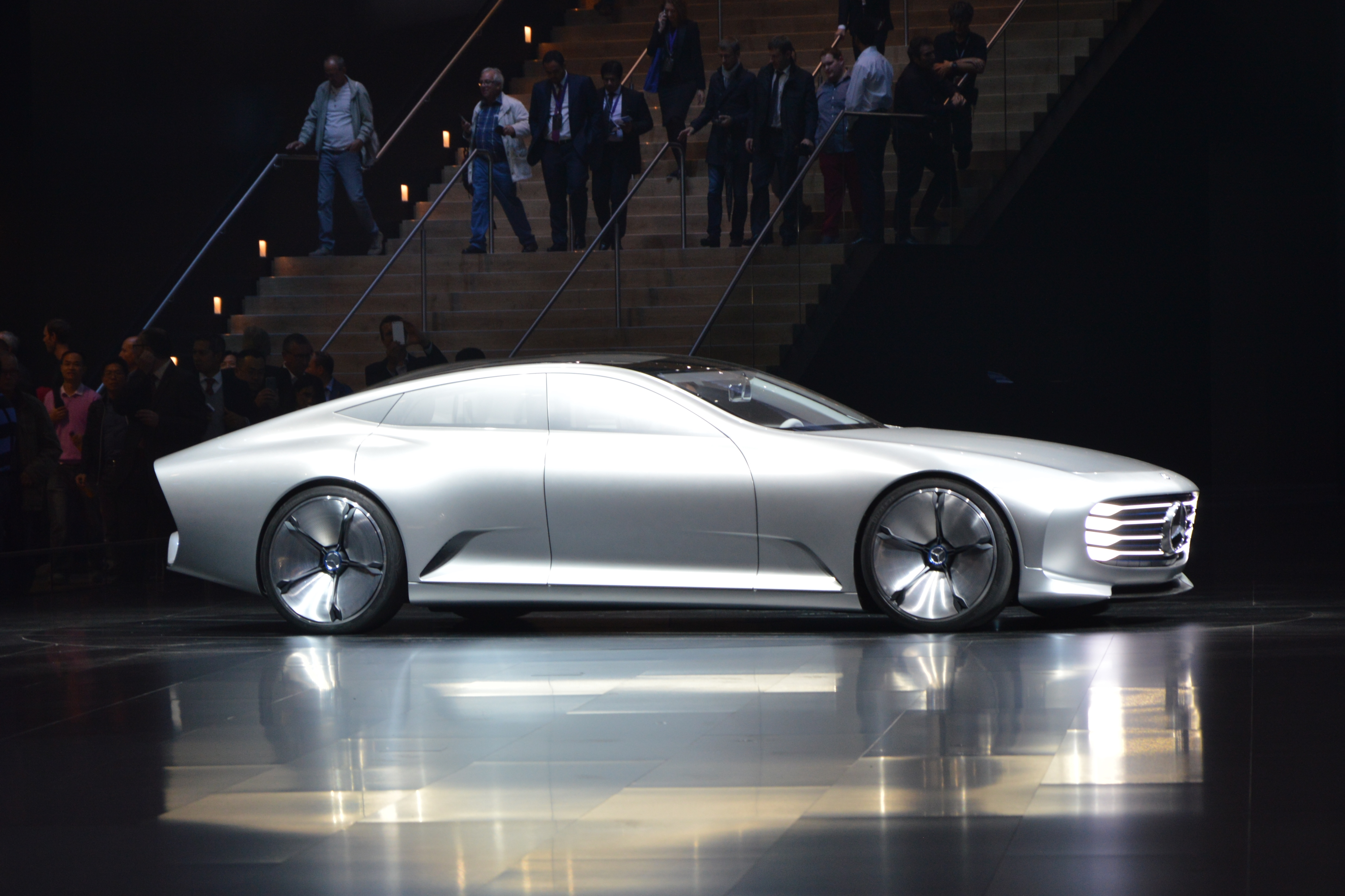 Mercedes-Benz concept car IAA. Photo taken at exhibition IAA 2015 in Frankfurt, Germany.